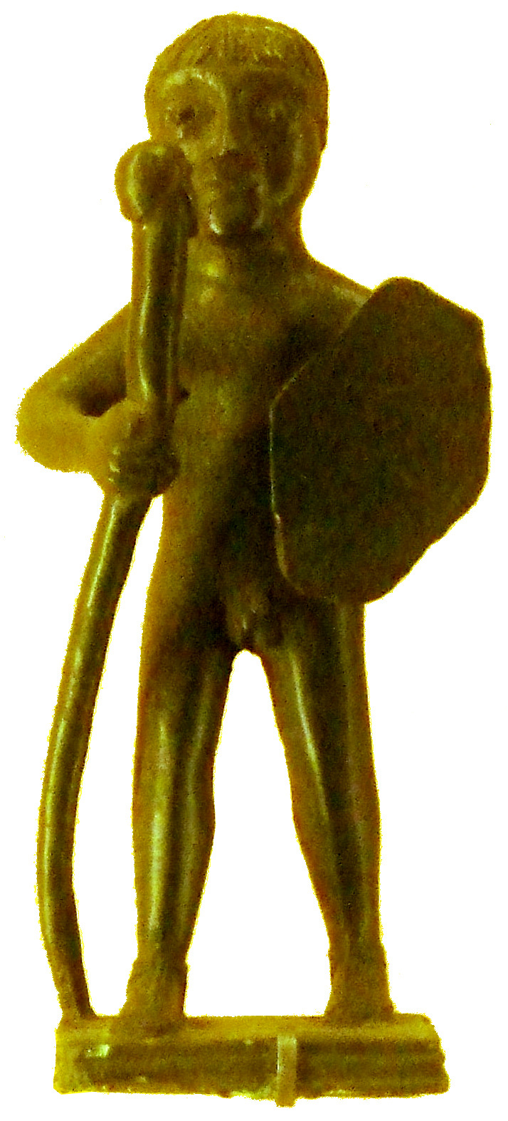 photograph of an ancient sculpture (c 1st C BC) in Museum of Brittany, Rennes.